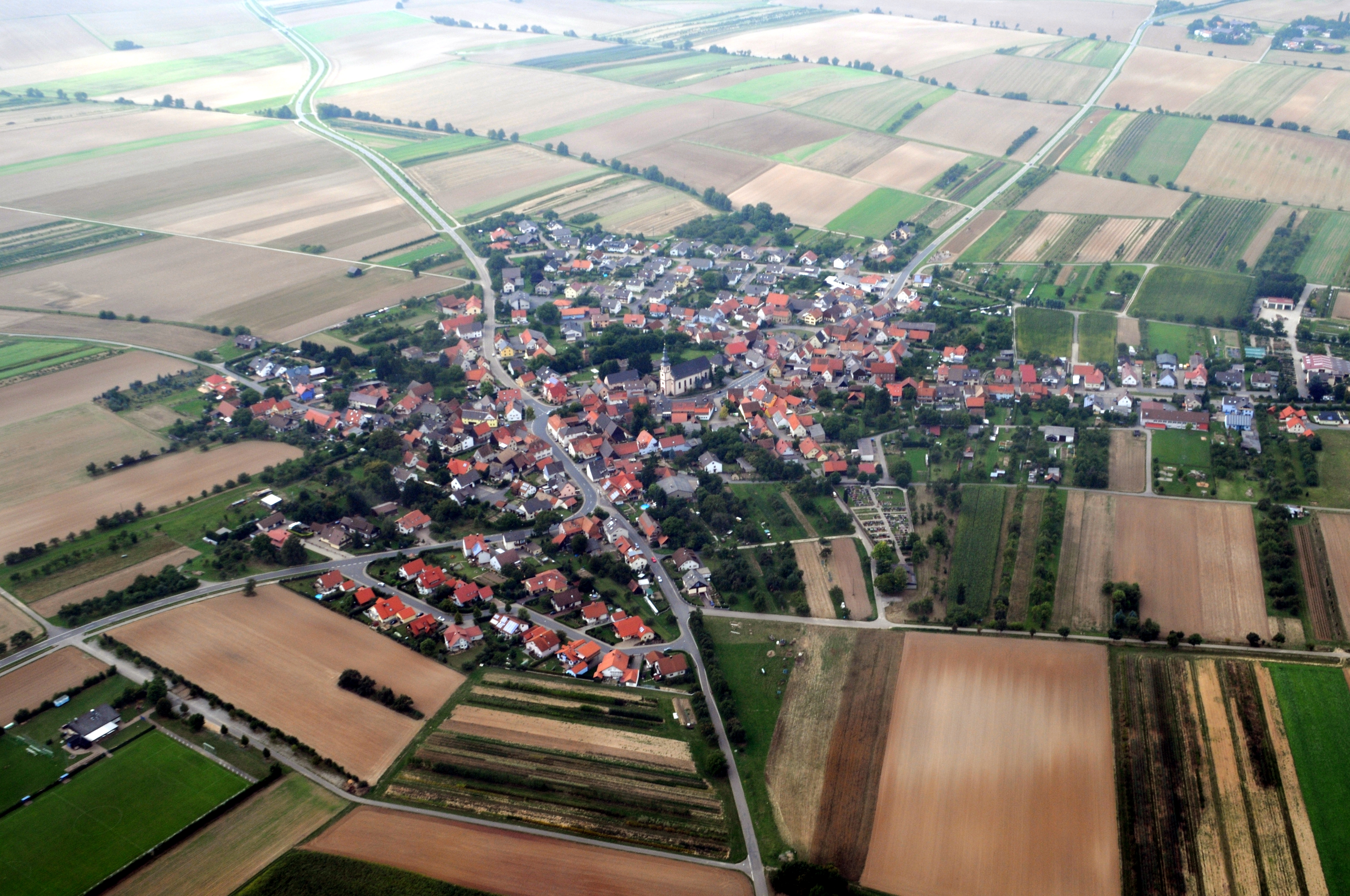 Hundheim, Külsheim, Baden-Württemberg, Germany, aerial photograph